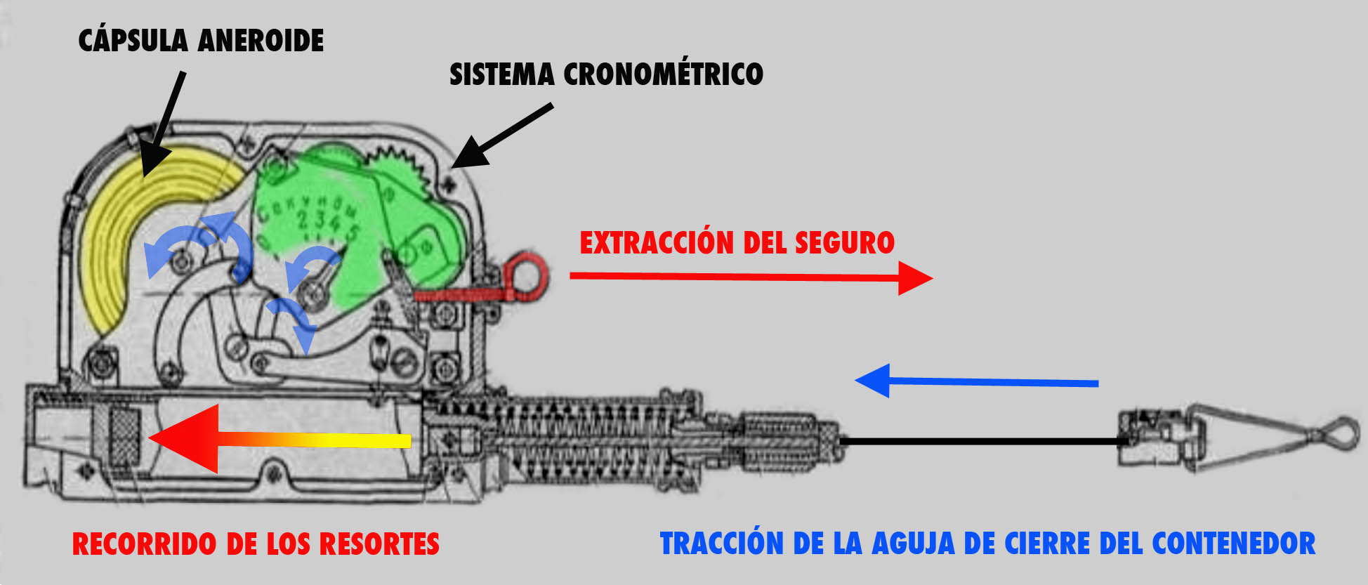 Automatic Activation Device for parachutes, chronobarometric activation